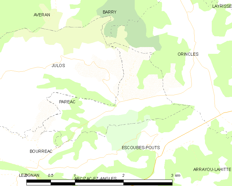 Map of French municipality